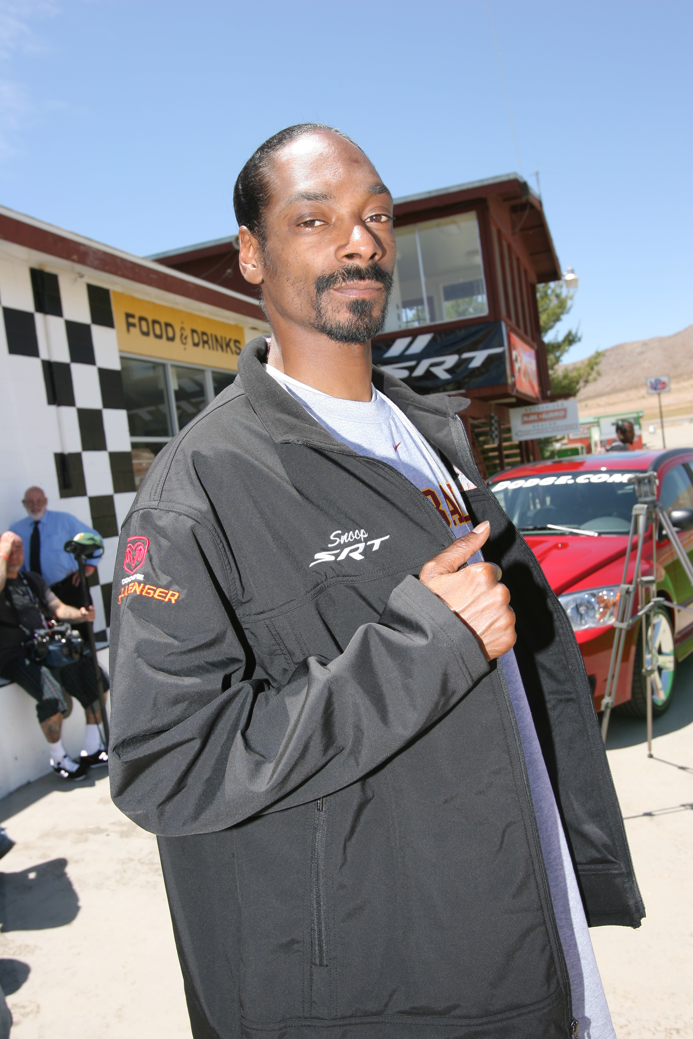 Dodge and SRT brands love Snoop!